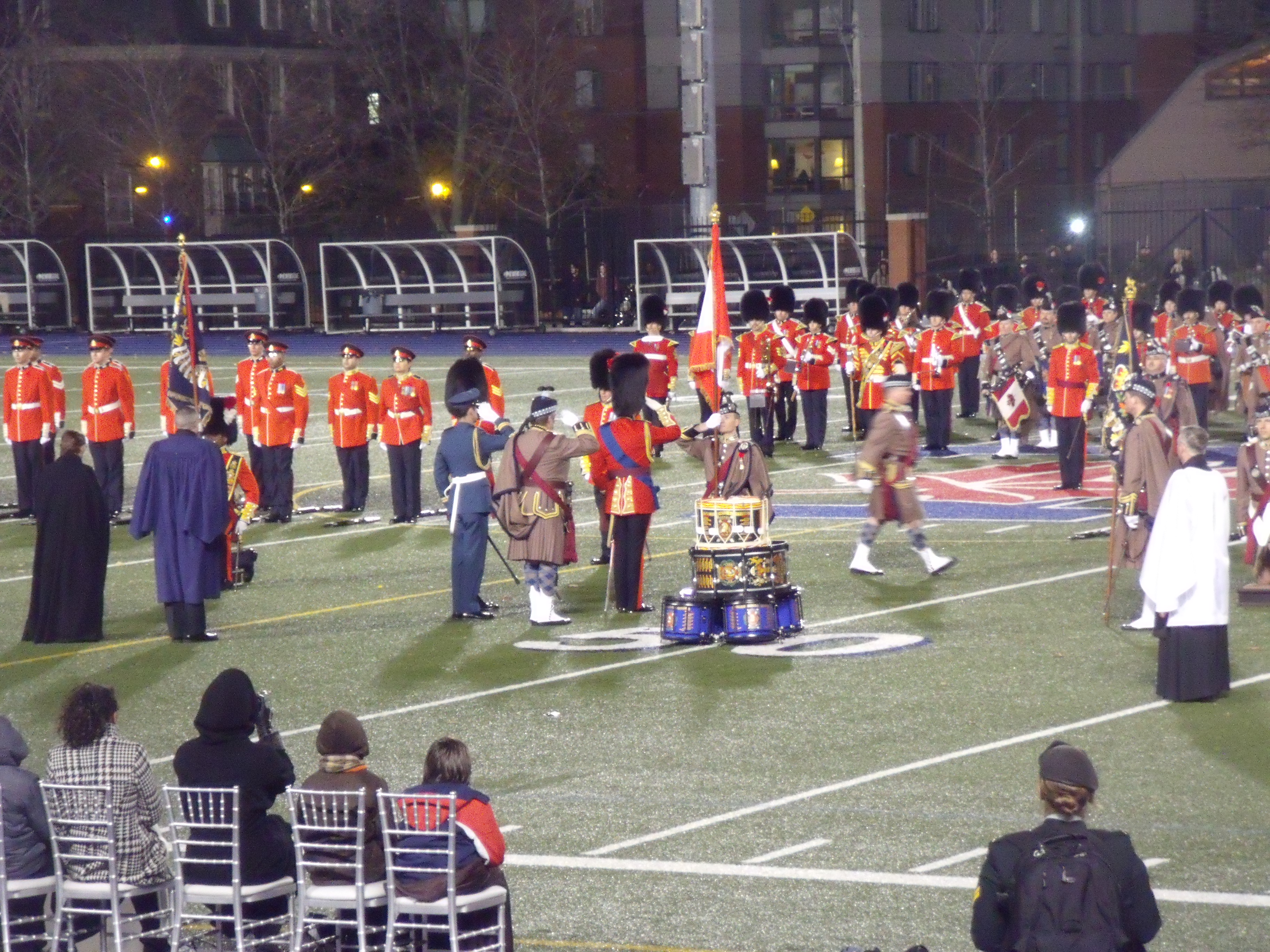 The Prince of Wales presents a new Queen's Colour to the Toronto Scottish Regiment (Queen Elizabeth the Queen Mother's Own)